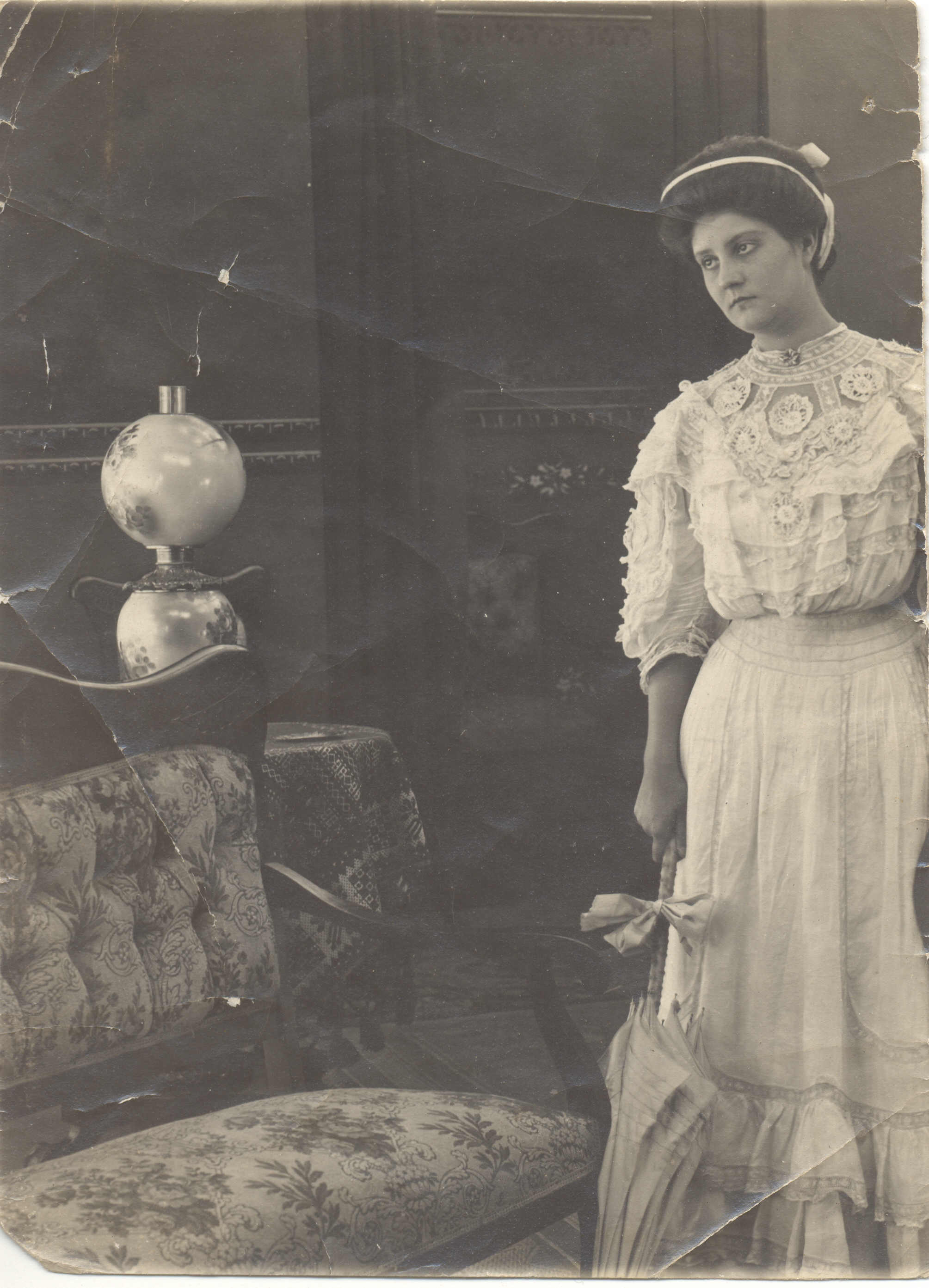 screen still of Anna Rosemond on film set